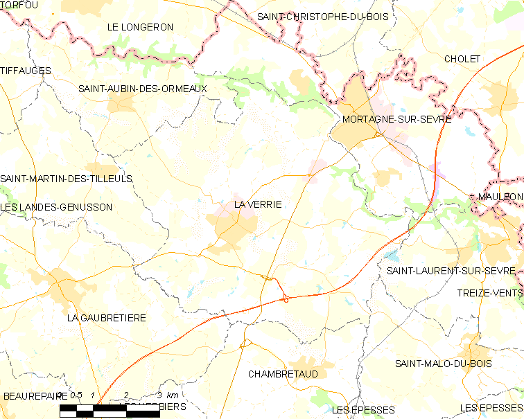 Map of French municipality La Verrie